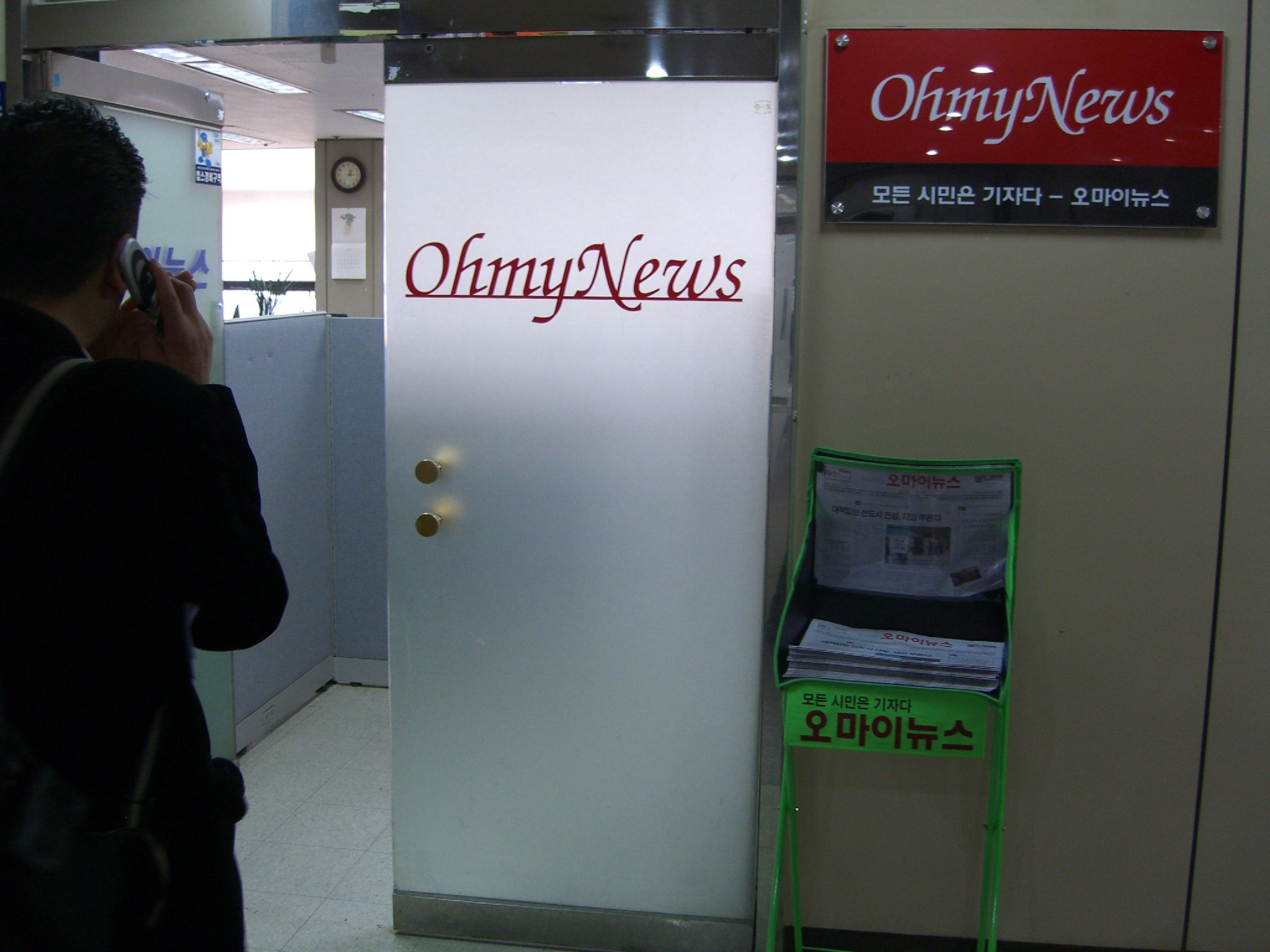 Stopped by the OhmyNews office, where the citizen journalism pioneers work. Got about a half hour with the editor-in-chief. Visit to OhmyNews office.